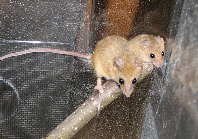 Male with young.